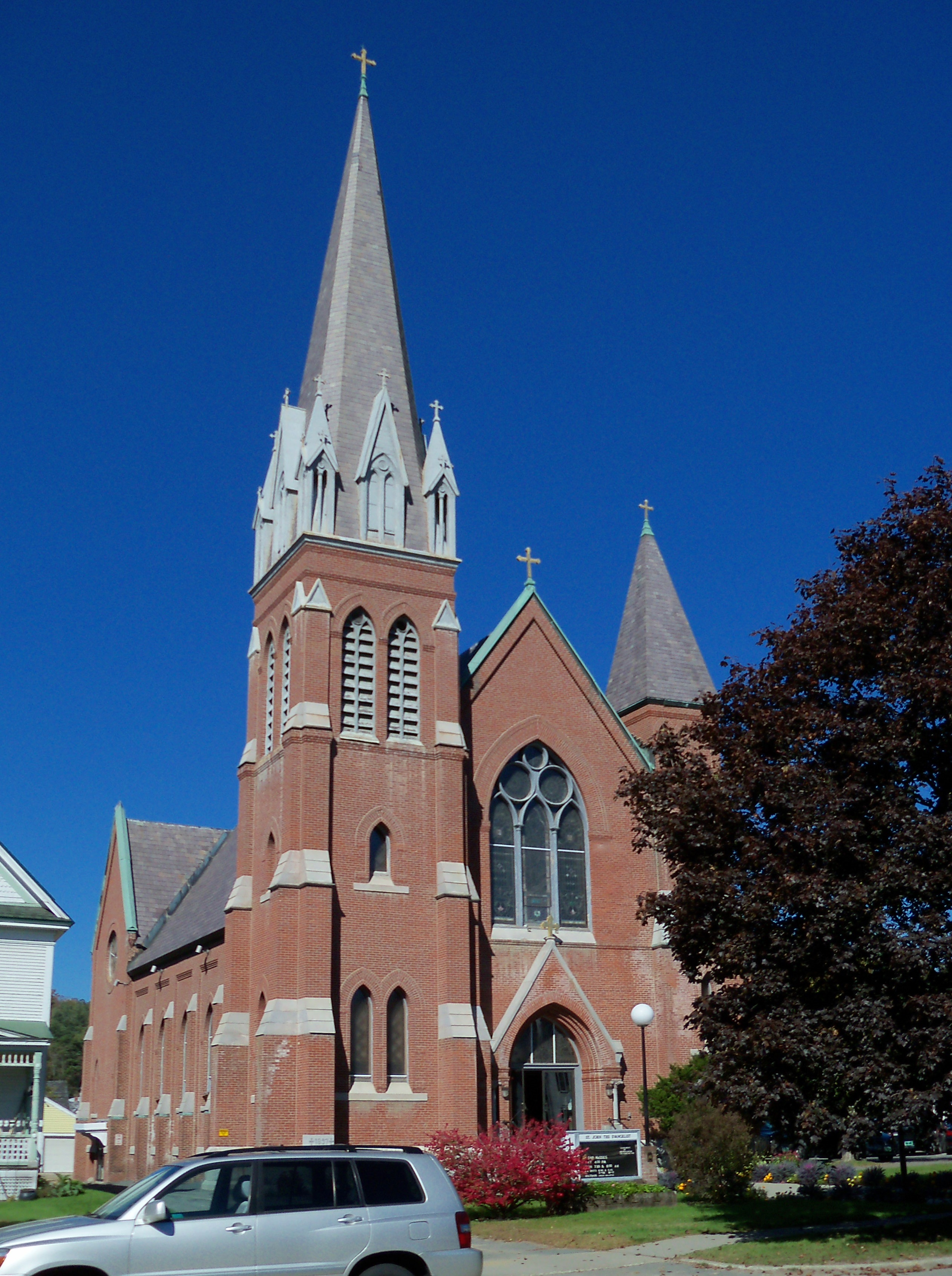 St. John the Evangelist Catholic Church in St. Johnsbury, Vermont, USA.